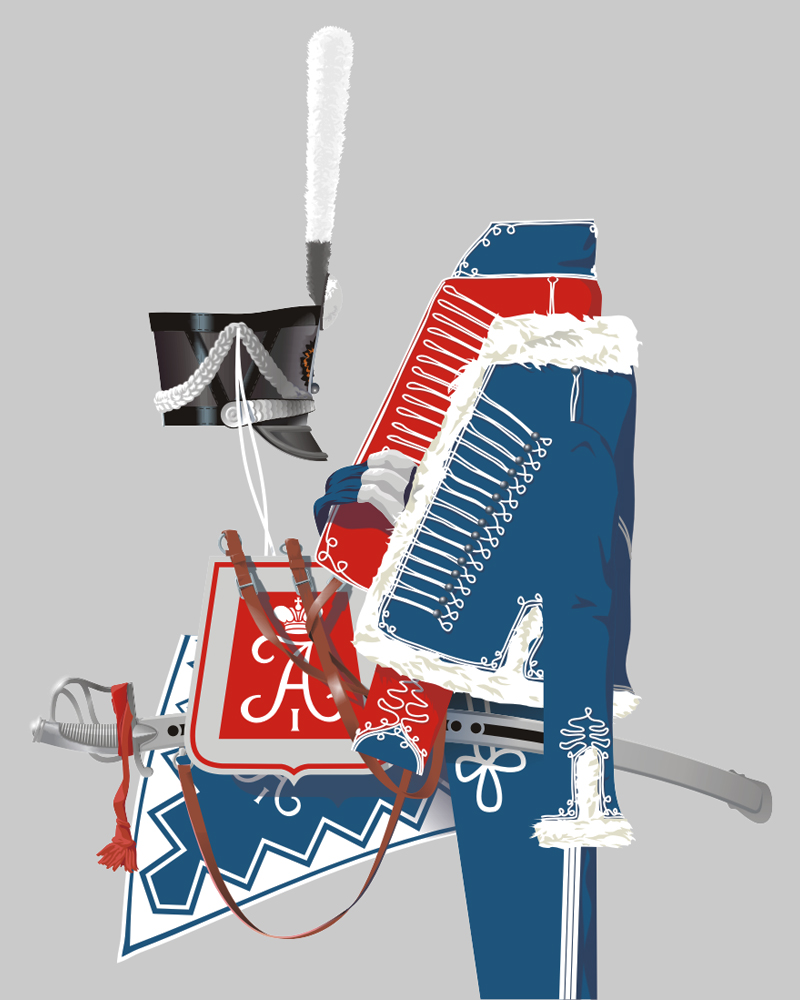 Trooper of Izum Hussar regiment’s full dress: dolman, pelisse, barrel sash, breeches, shako (here of 1812), shabraque, sabretache & sabre. Russian army of 1812